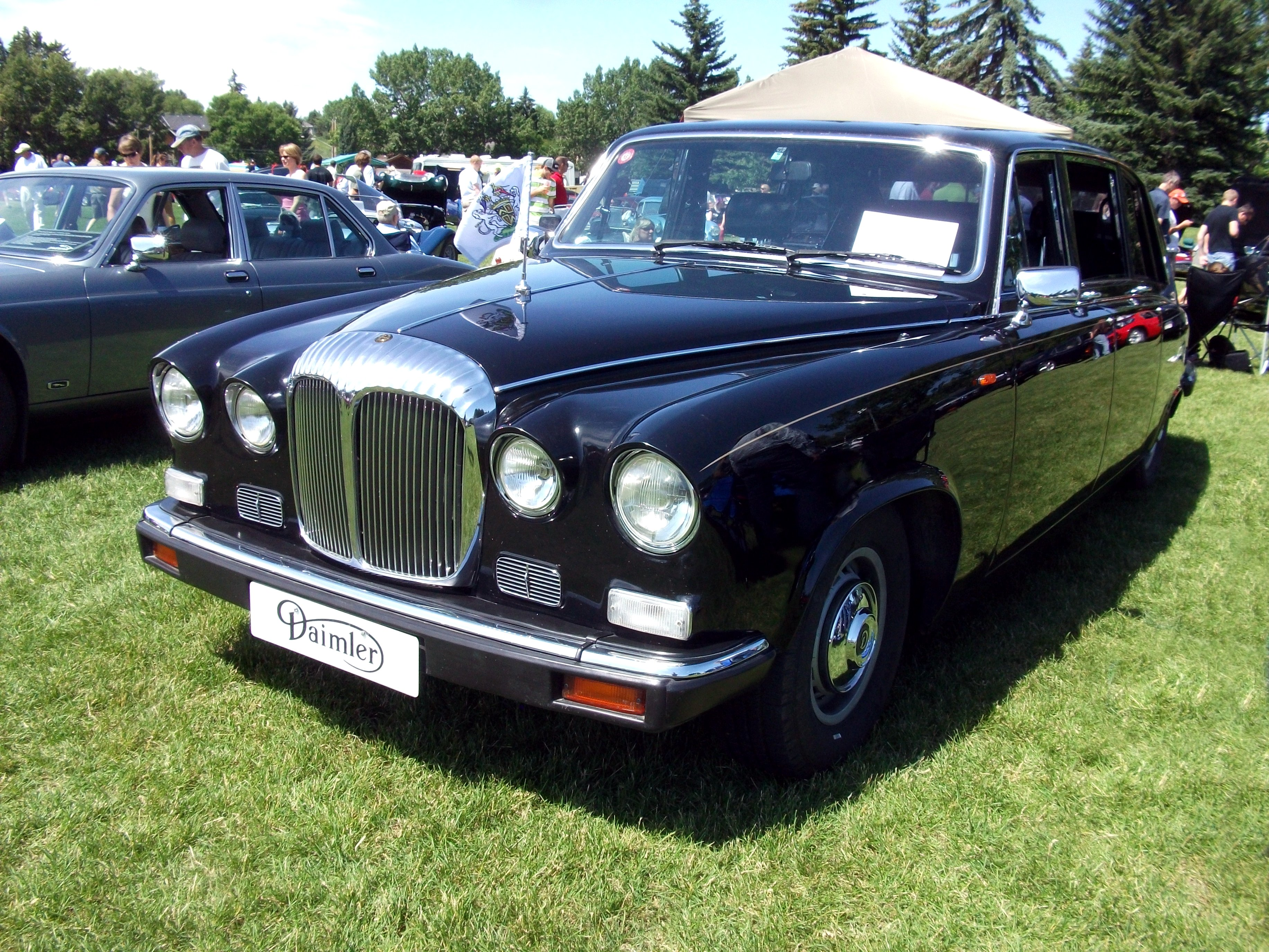 Imported from the UK 1990 Daimler DS420